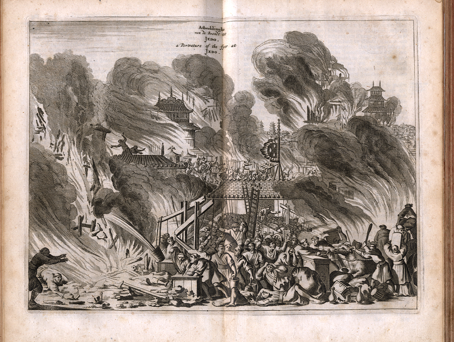 The Great Fire in Edo 1657. Engraving in Arnold Montanus: Gedenkwaerdige Gesantschappen der Oostindische Maatschappy in't Vereenigde Nederland aan de Kaisaren van Japan. 1669. (Collection W. Michel, Fukuoka)